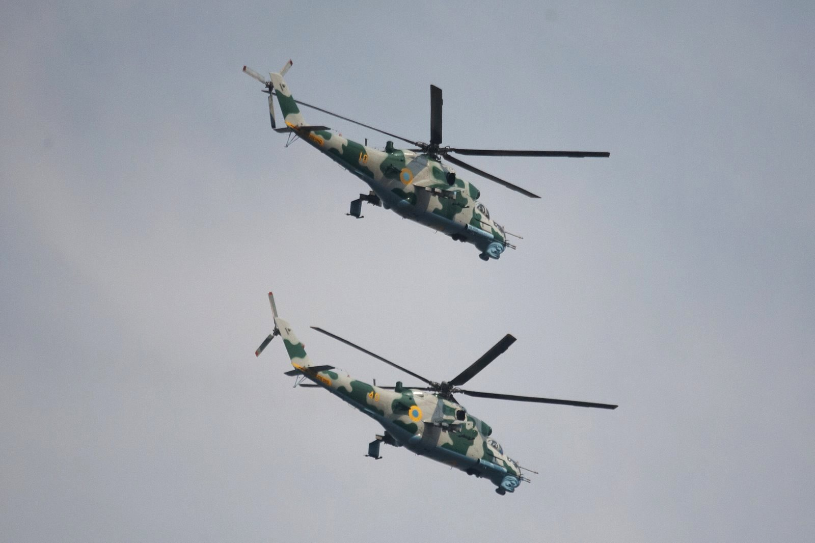 Ukrainian Mil Mi-24 helicopters.